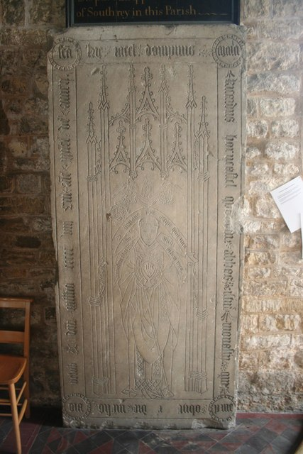 Abbot Richard Horncastle Large incised slab in St.Lawrence's church to Abbot Richard Horncastle of Bardney Abbey who died in 1508